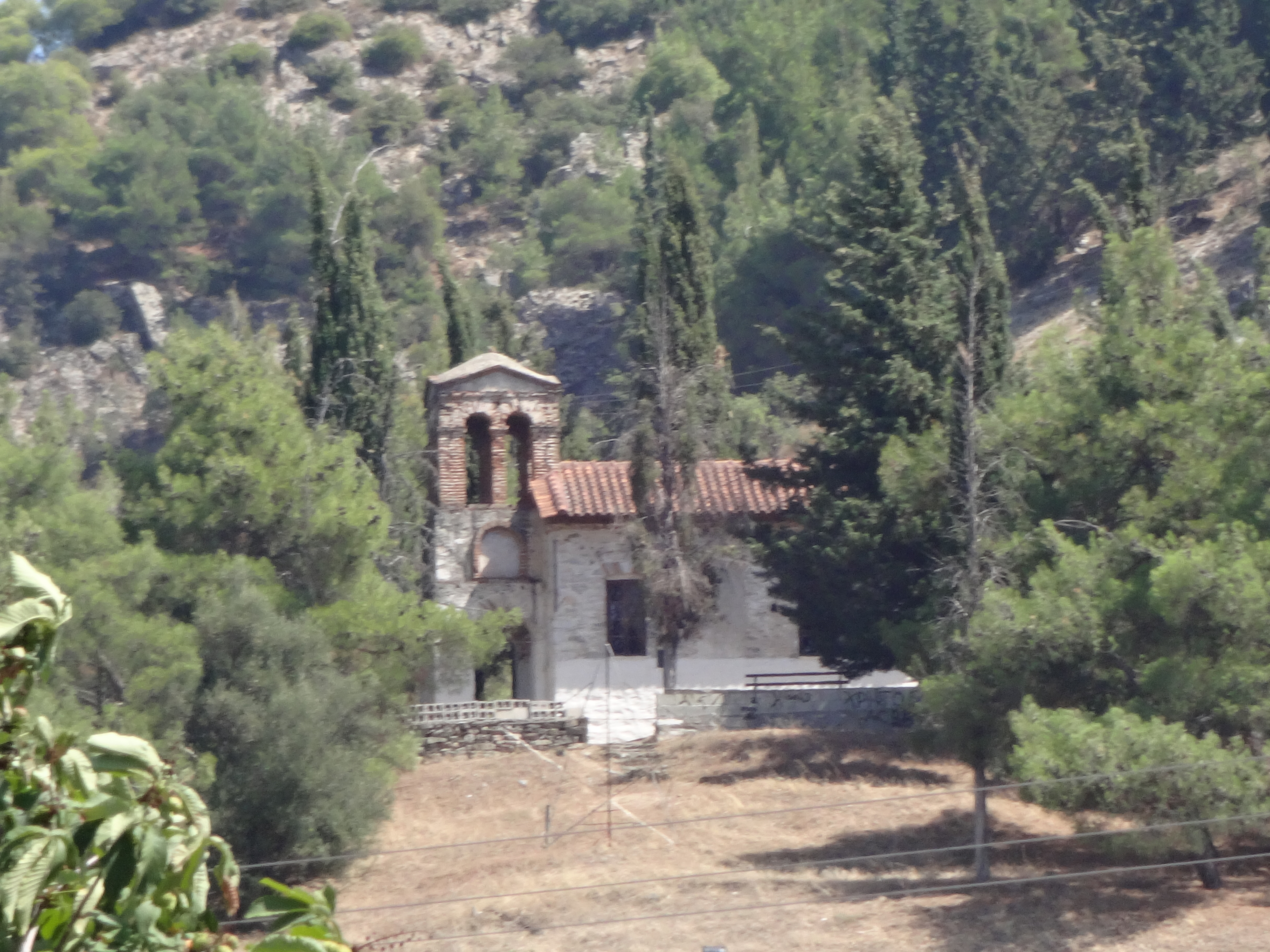 Tsaritsani, Greece. Chapel of St. Elias.